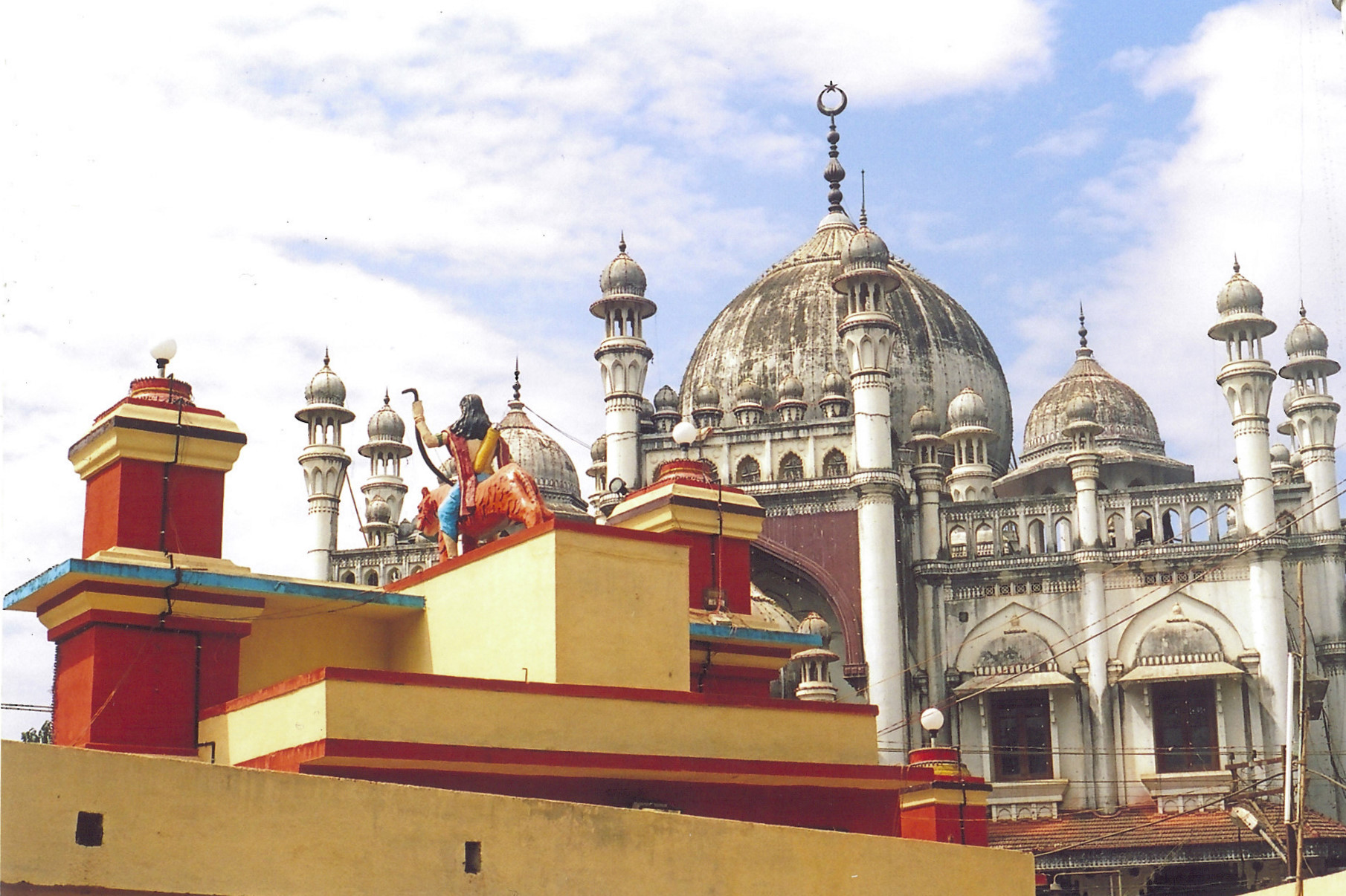 A view from Ayyapa temple in front of Vaavar's mosque on the way to Sabarimala.